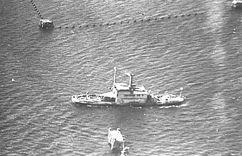 Former Sydney Ferry, KURAMIA, as a navy boom gate vessel. Sydney. (01/09/1939 - 02/09/1945), [A-00080473]. City of Sydney Archives, accessed 04 Jul 2020